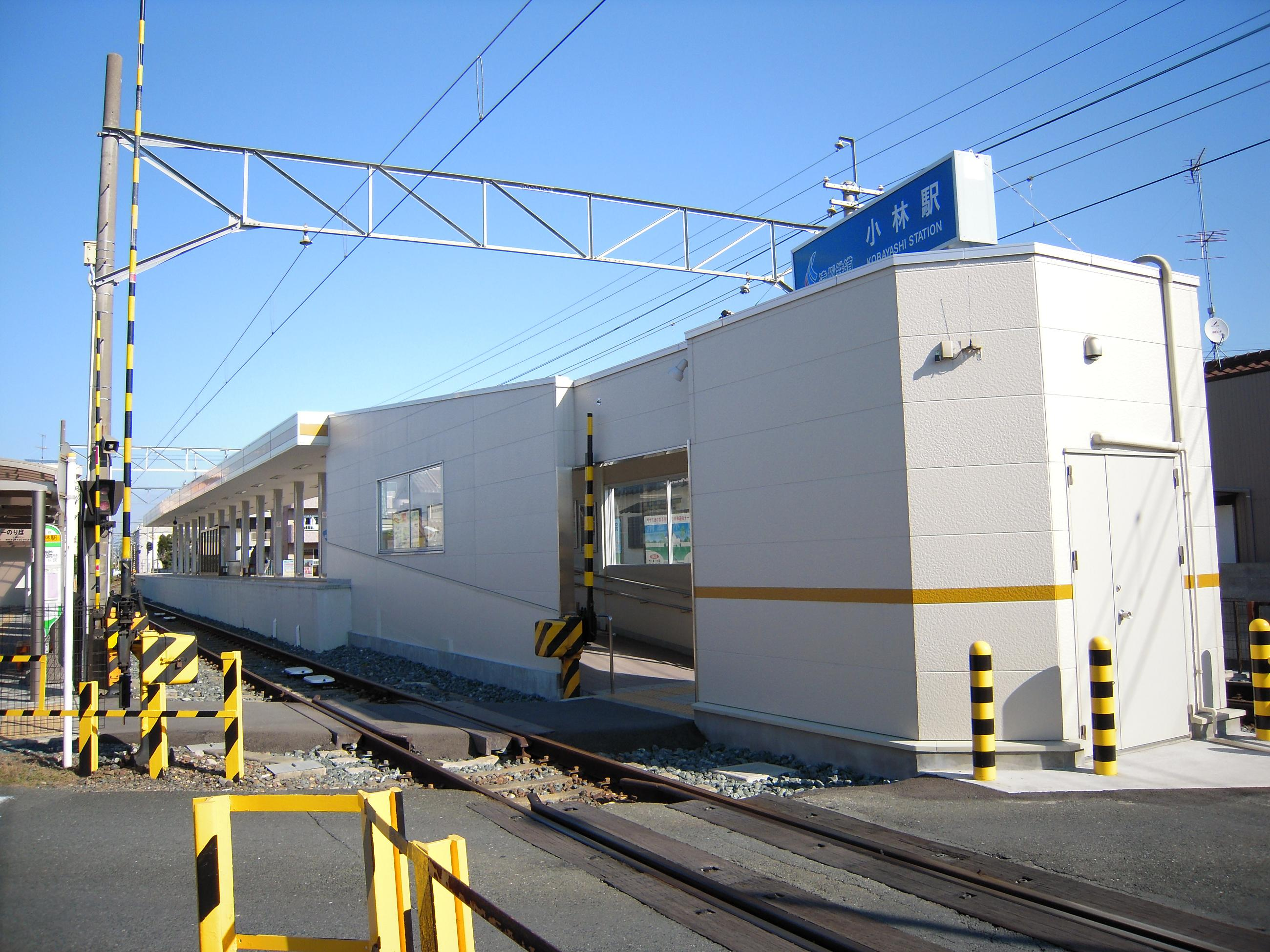 Ensyu railway company Ensyu-kobayashi Station